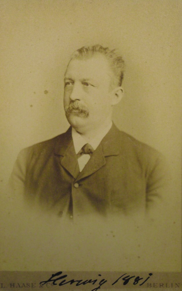 Portrait of Walther Herwig (1838-1912) dedicated by himself as member to the Corps Hannovera. He became a member during his studies at Göttingen University in 1857.